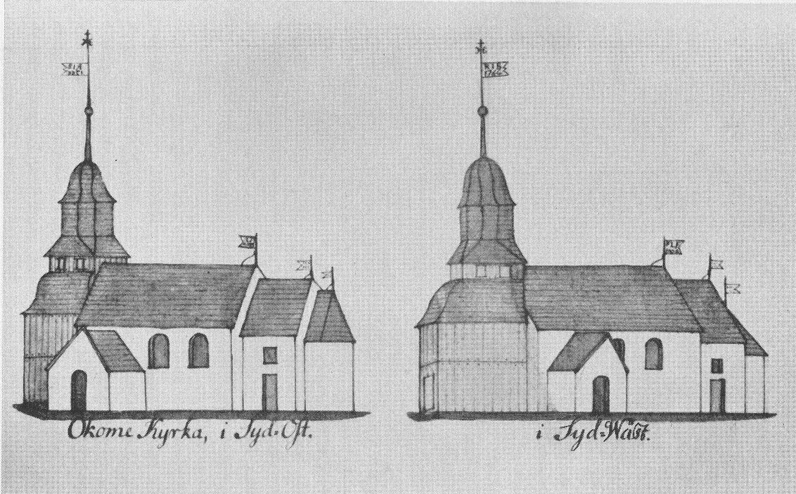 The old church of Okome at the end of the 18th century, drawing by the vicar A.P. Widberg